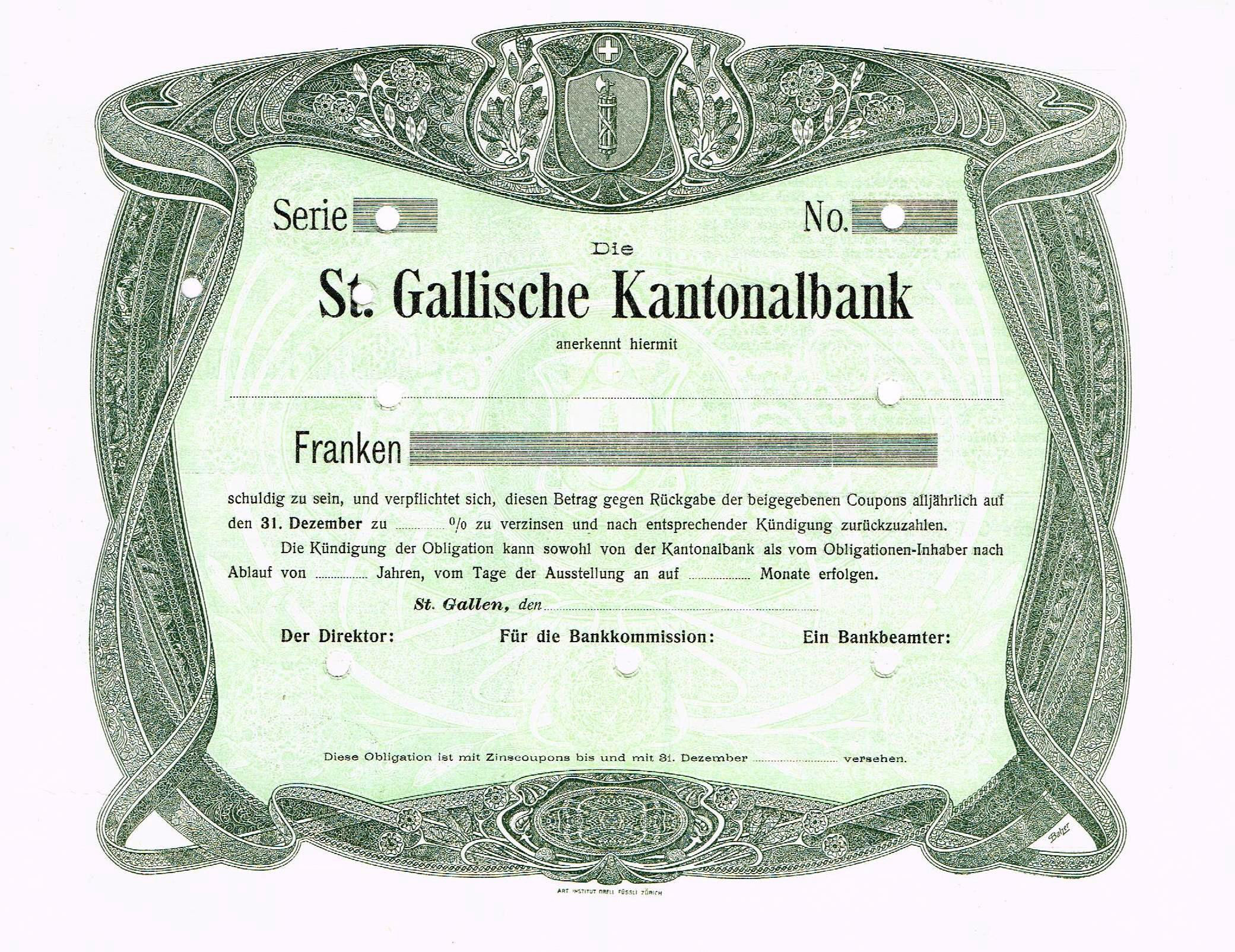 unissued bond of the St. Gallische Kantonalbank